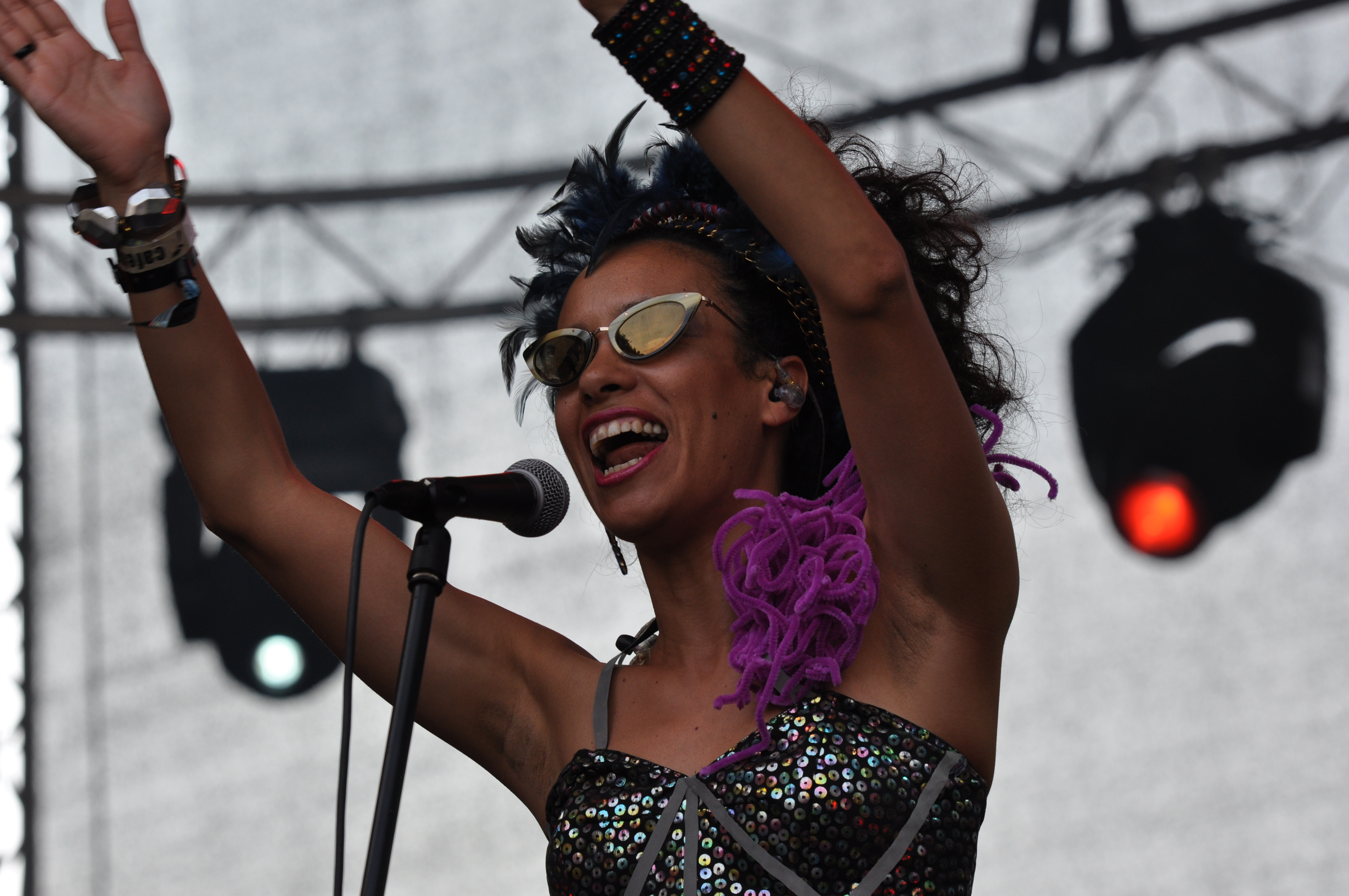 La Yegros (AR), appearance at the 12th World Music Festival "Horizonte" 2014 at the fortress of Ehrenbreitstein, Koblenz (Germany)